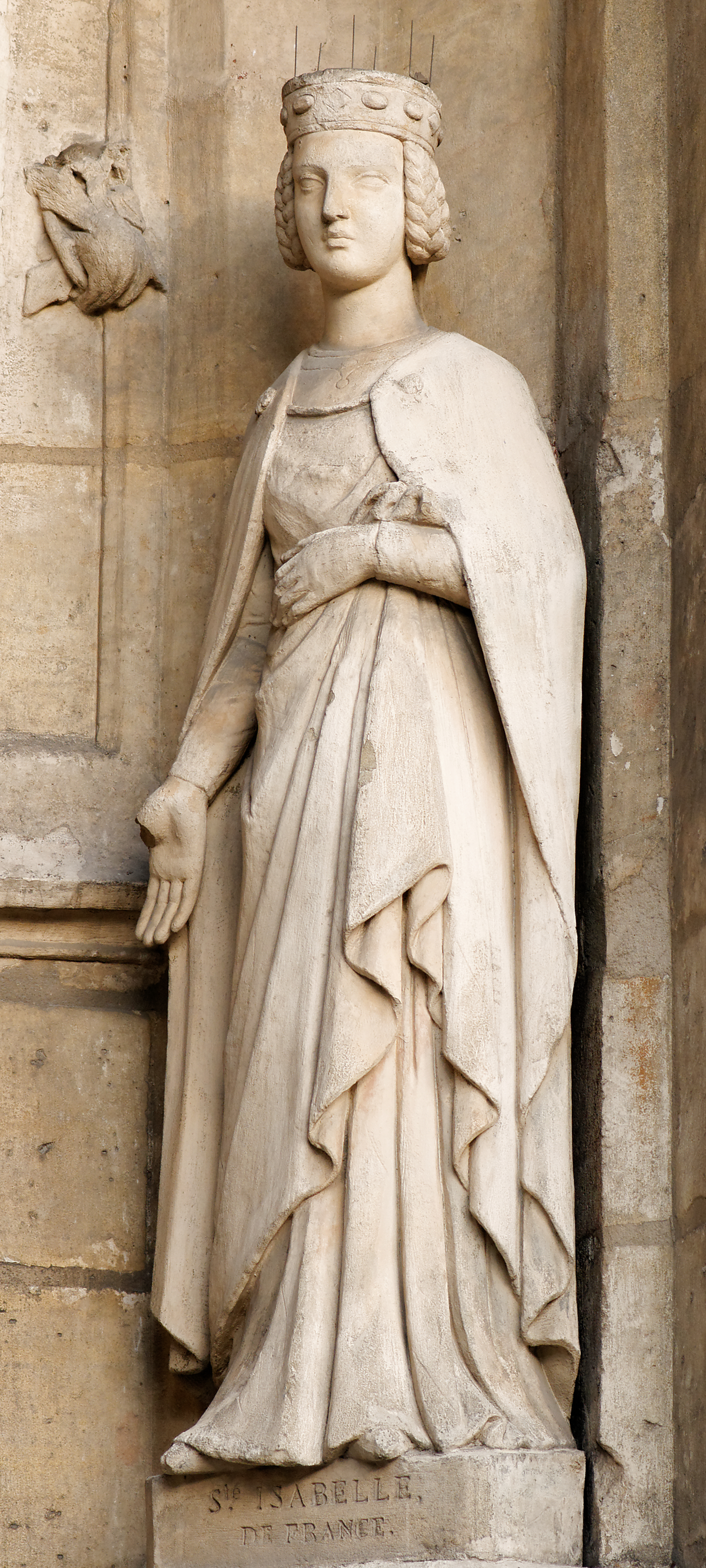 Blessed Isabel of France, copy after the gothic original. Porch of Saint-Germain l'Auxerrois, Paris.